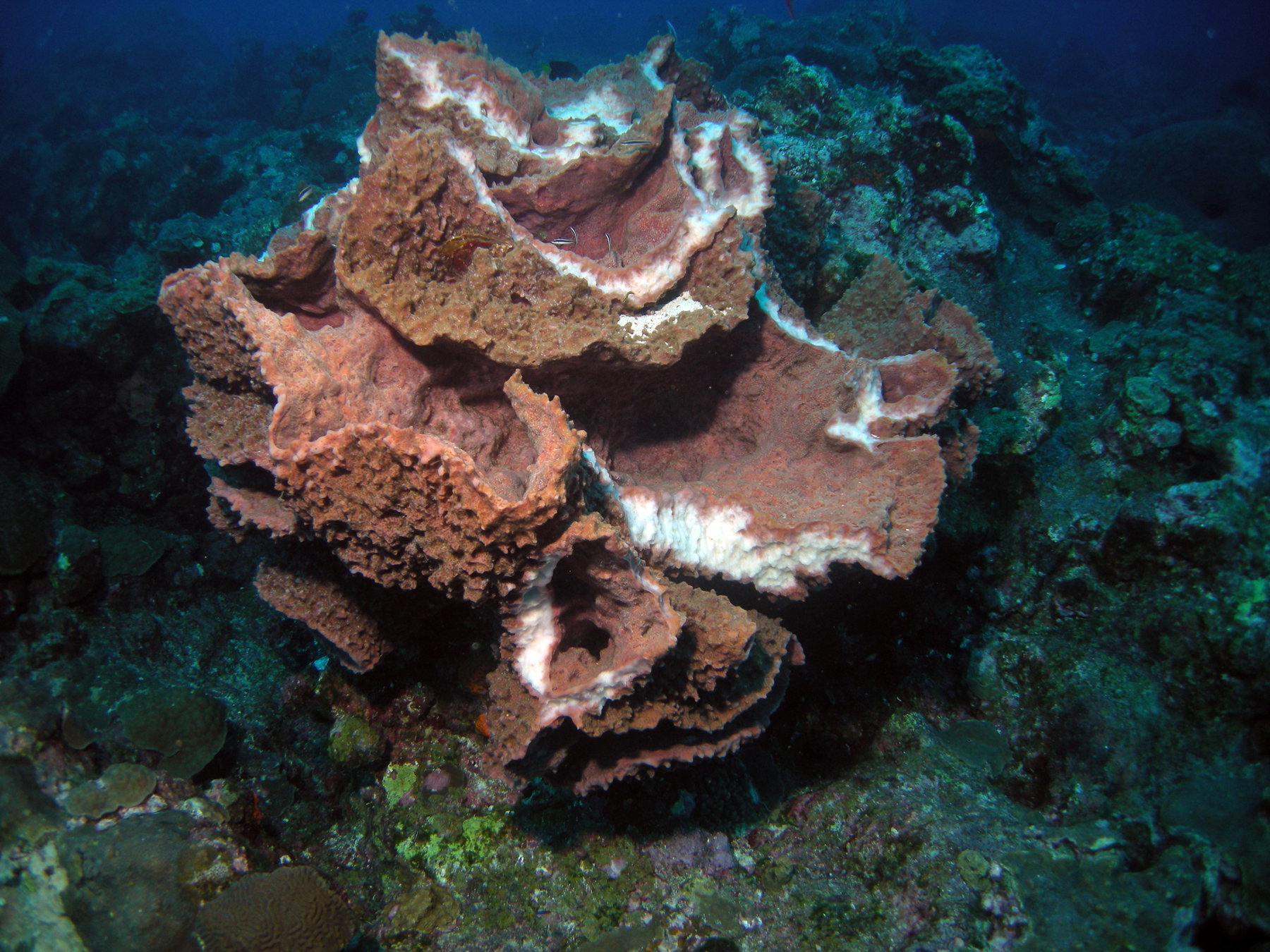 Giant barrel sponge (Xestospongia muta) exhibiting exposed tissue where portions of the barrels have been sheared off by the storm. The elkhorn coral colony at West Flower Garden Bank, located at approximately 27°54'33" N, 93°35'59" W, in the northwestern Gulf of Mexico, is situated behind the barrel sponge in this photo (October 2008) . Photo: Hickerson/FGBNMS